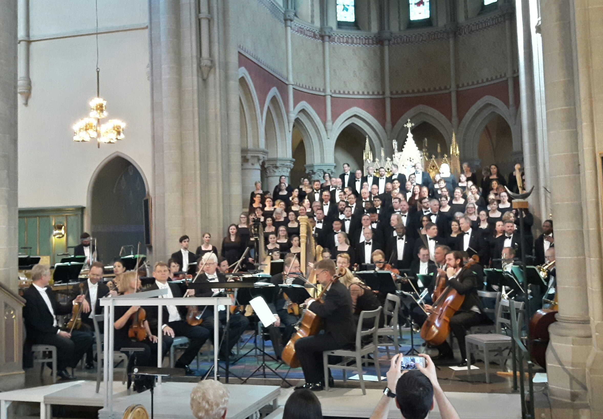 Dallas Symphony Chorus singing in Olaus Petri church, Örebro, Sweden, as part of their European 40th anniversary tour.